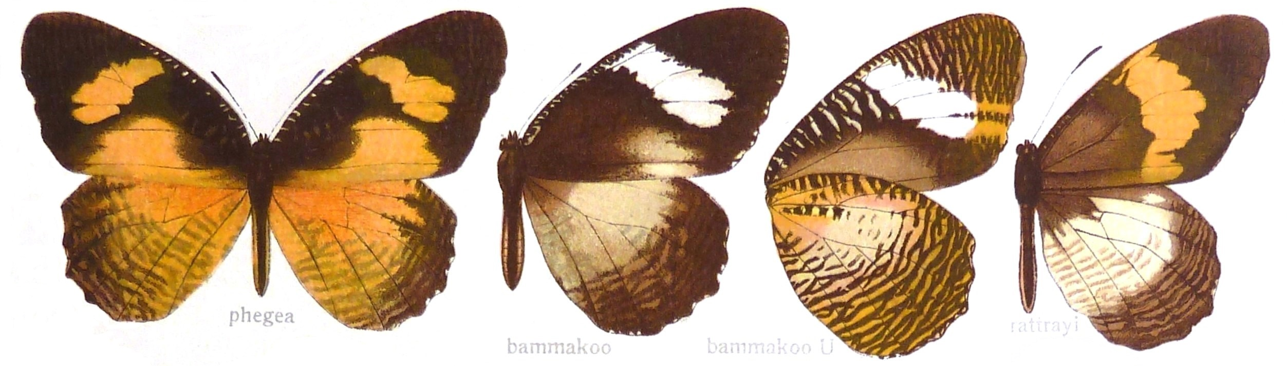 Adalbert Seitz Die Gross-Schmetterlinge der Erde 13: Die Afrikanischen Tagfalter. Plate XIII 26 Papilio phegea Fabricius, 1793, synonym for Elymniopsis bammakoo (Westwood, [1851])